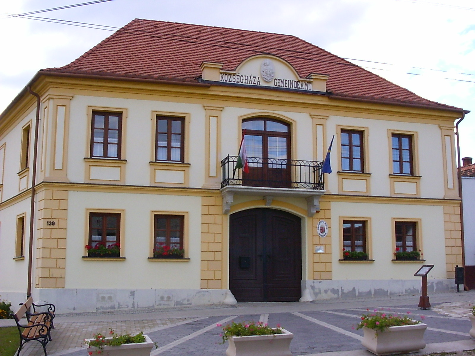 Village hall in Fertőrákos